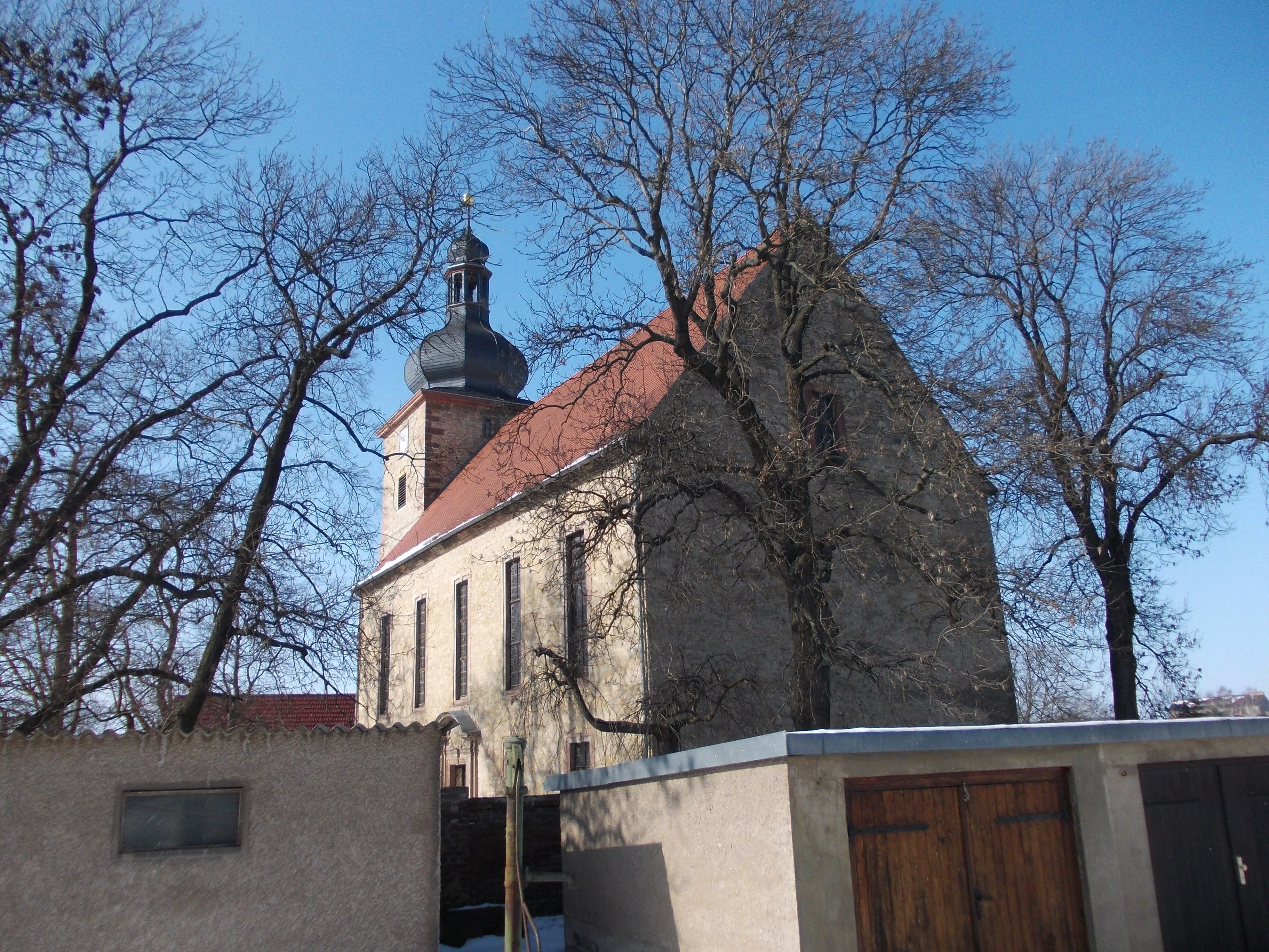 Nemsdorf church (Nemsdorf-Göhrendorf, district of Saalekreis, Saxony-Anhalt)